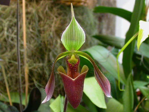 Paphiopedilum